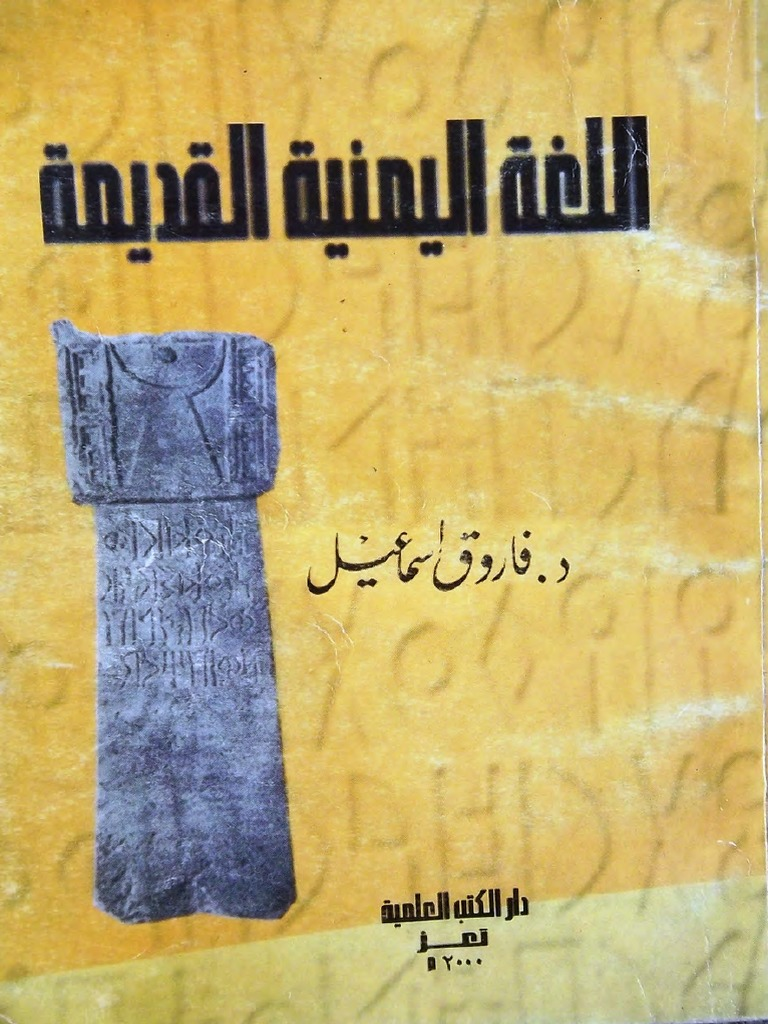 Farouk Ismail - The old Yemeni language